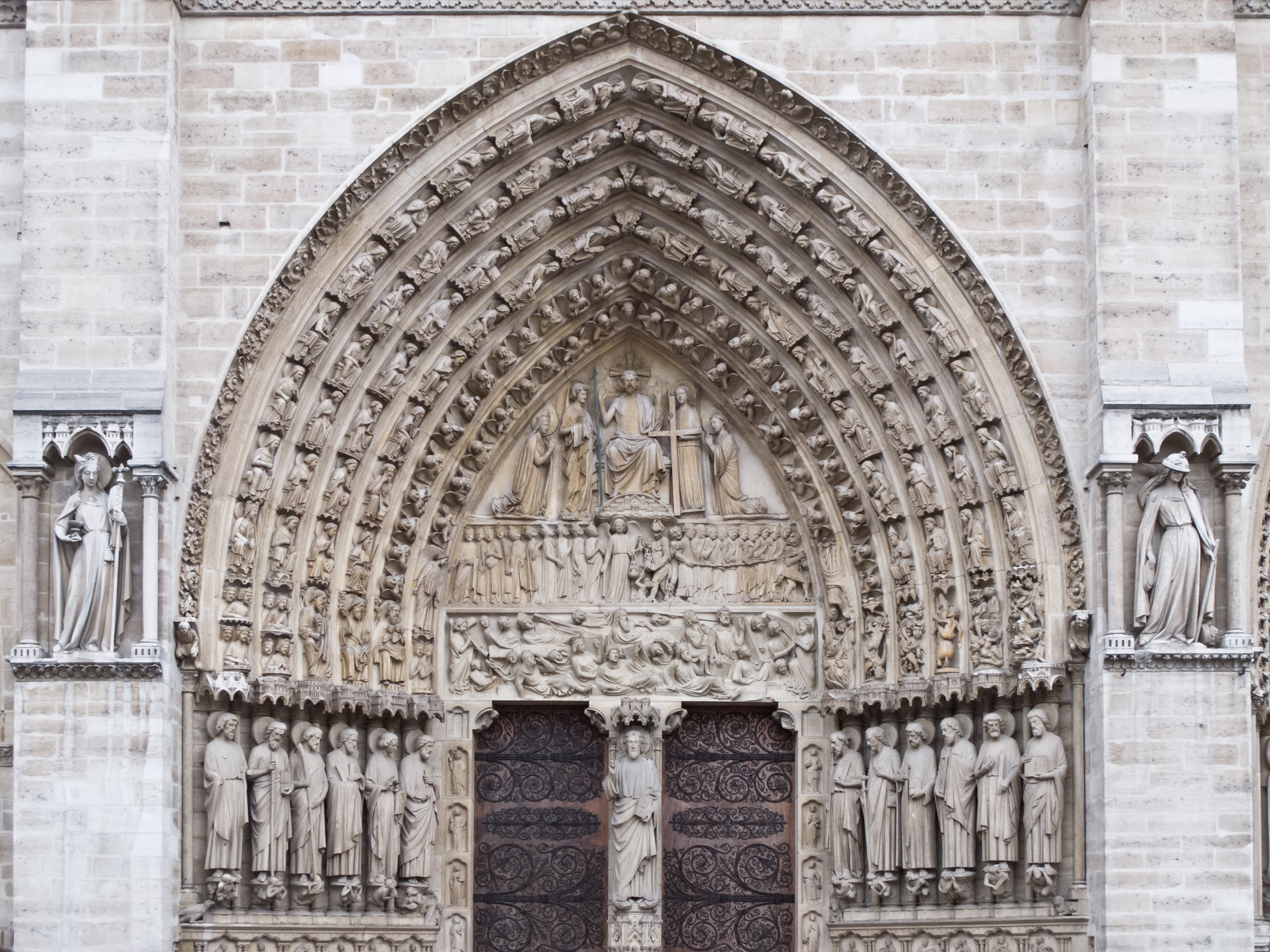 Portal of the Last Judgement of the Cathedral of Notre-Dame of Paris, France.